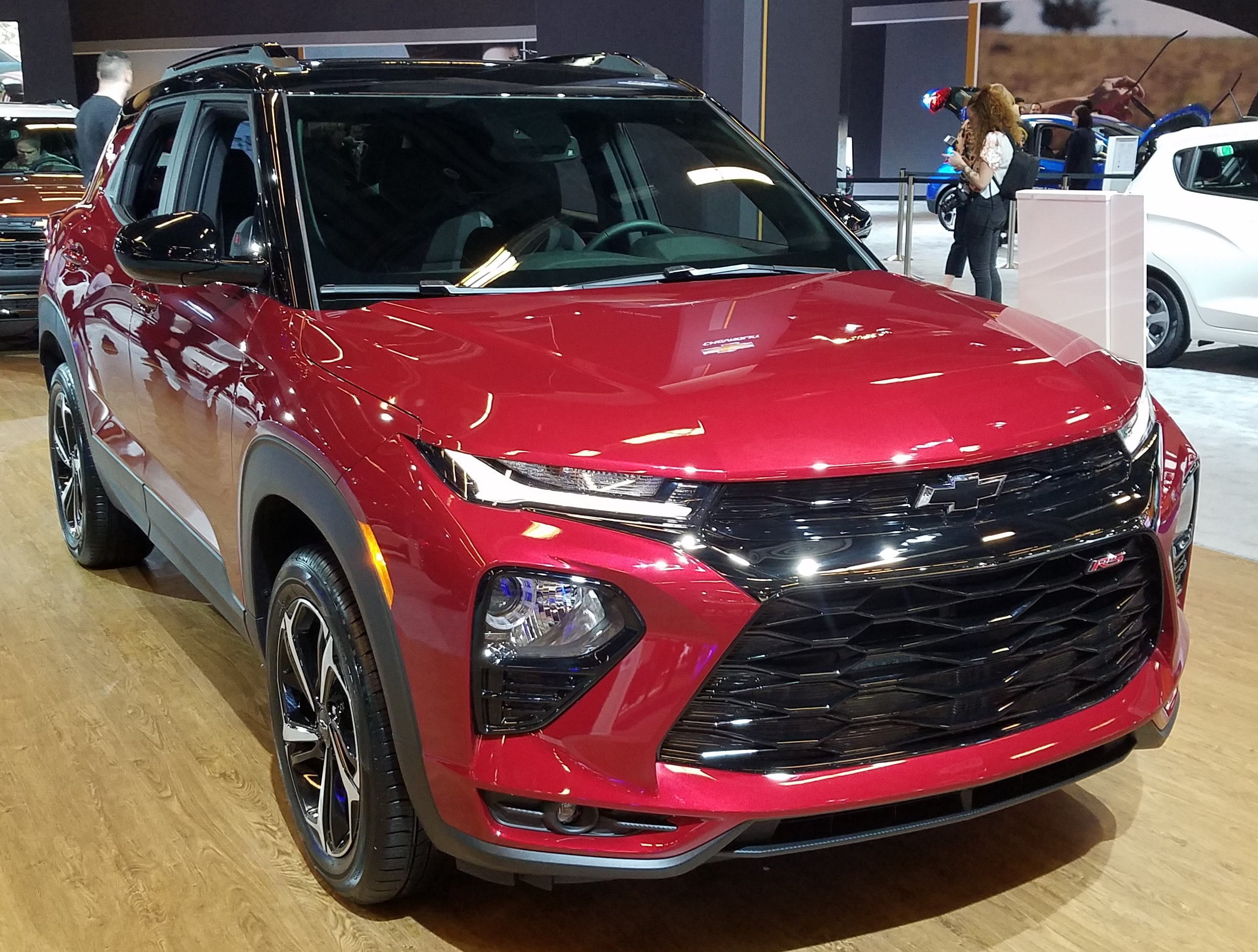 2021 Chevrolet Trailblazer photographed in Montreal, Quebec, Canada inside the 2020 Montreal International Auto Show.